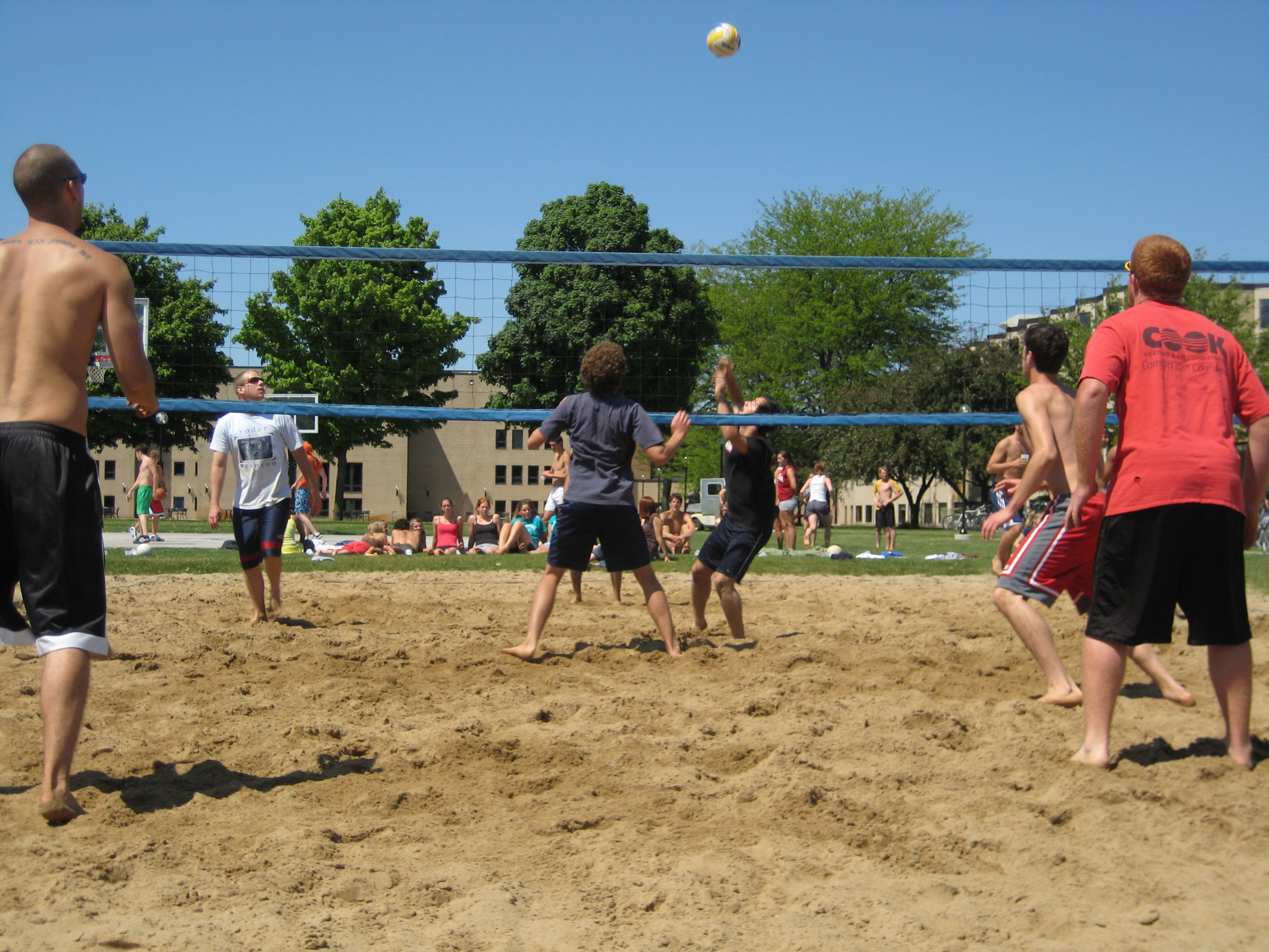 beach volleyball intramurals